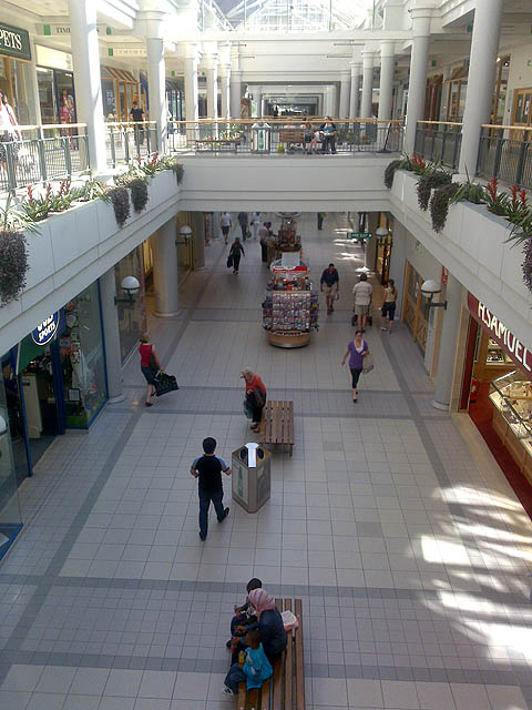 The Howard Centre Small shopping mall in Welwyn Garden City.